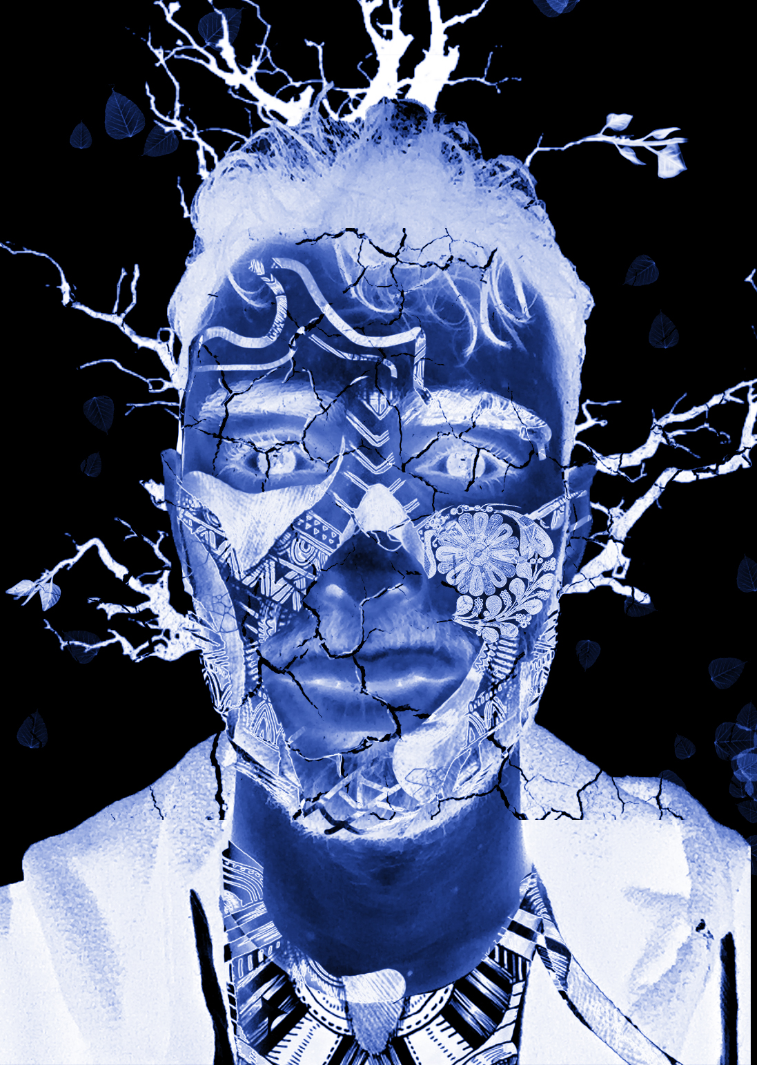 This artwork is the continuation of the narrative from Descending Into the Blue Void. At this point, the protagonist has reached the blue void emotionally. The piece is monochrome, containing only tones and hues of blues, especially blue 27, creating a distorted surreal image, establishing in this way artist’s intrinsic emotions. The construction of this piece and the portrait details were influenced by Ian Macarthur and Gabi Trinkaus. Created by Sirio Berati (@sirio)